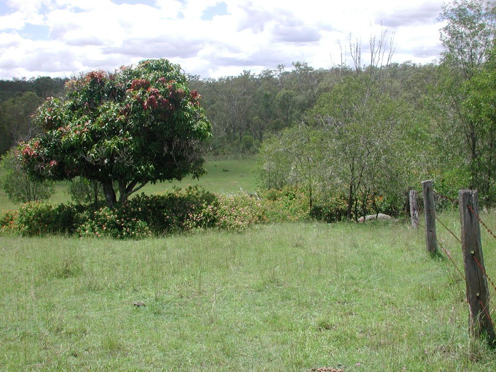 602251 - Deebing Creek Mission (former)